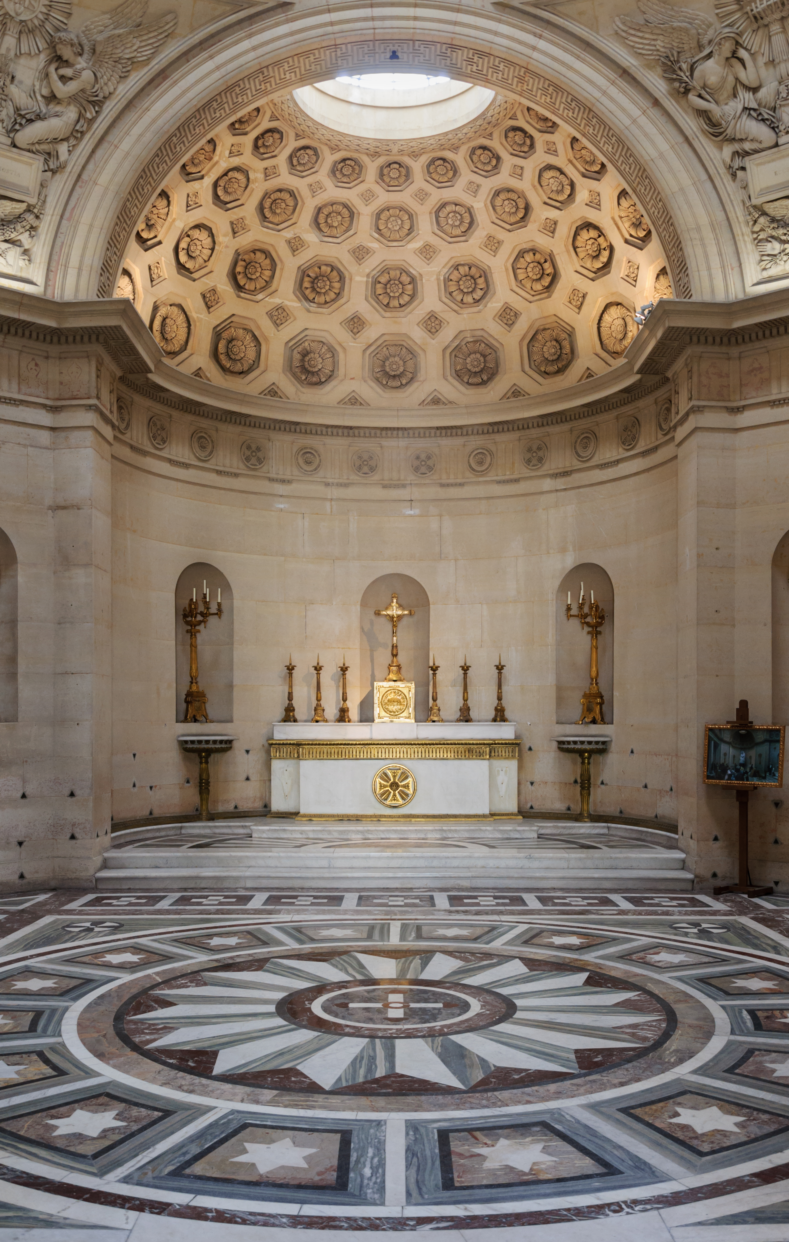 Inside view of the Chapelle expiatoire ("Expiatory Chapel"), Paris, France .